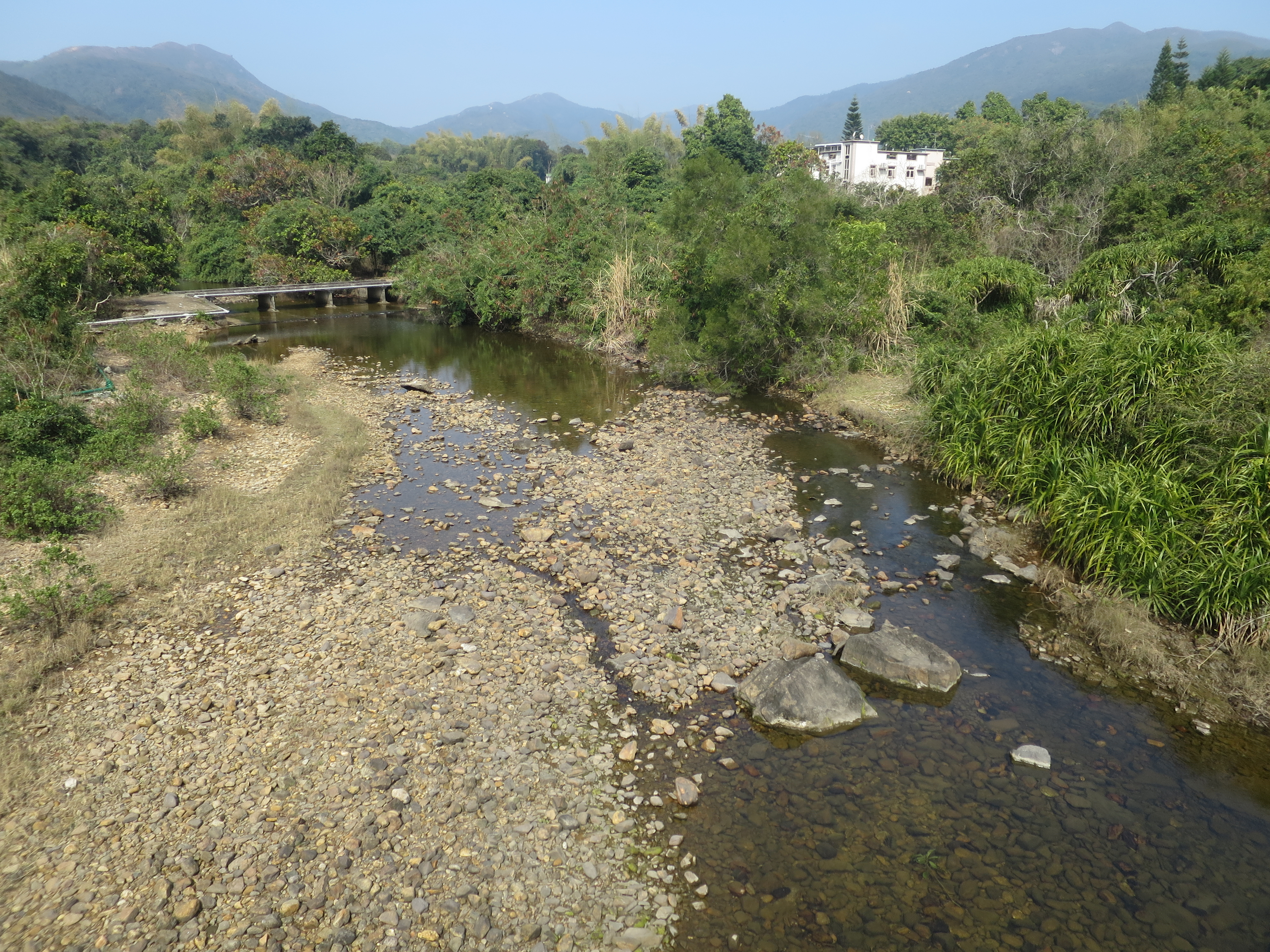 Looking towards Northwest over a bridge from Tai Mong Tsai Road before the Junction of Man Yee and Pak Tam Road. The flow of the Lung Hang (龍坑) creek is low in winter.